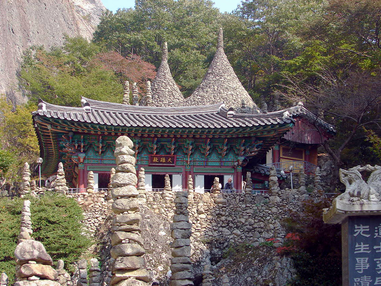 Tapsa (Buddhist Temple) and the Stone Pagodas of Maisan (Hourse Ear Mountain) in Jinan County, North Jeolla Province, South Korea.